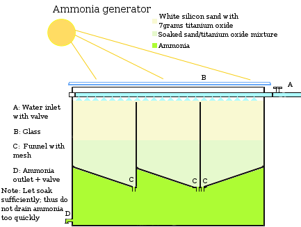 A schematic of an ammonia generator system. This system was designed by Bill Holmgren , and was intented for fertilization of crops. The titanium oxide is a catalyst, so the system does not run out of resources to generate the fertiliser.